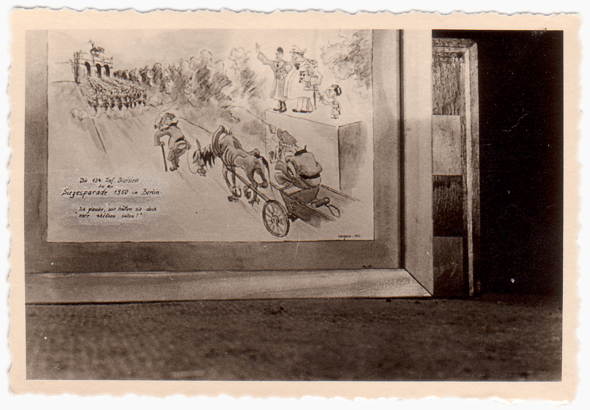 Photo of a caricature made by a soldier (name unreadable) of the 134th ID. Text in the picture: The 134th Inf. Division at the Victory Parade 1950 in Berlin. "I think we should have replaced her sooner!" - On a pedestal standing Hitler, Göring and Goebbels (drawn in a, at that time quite criminally risky style).